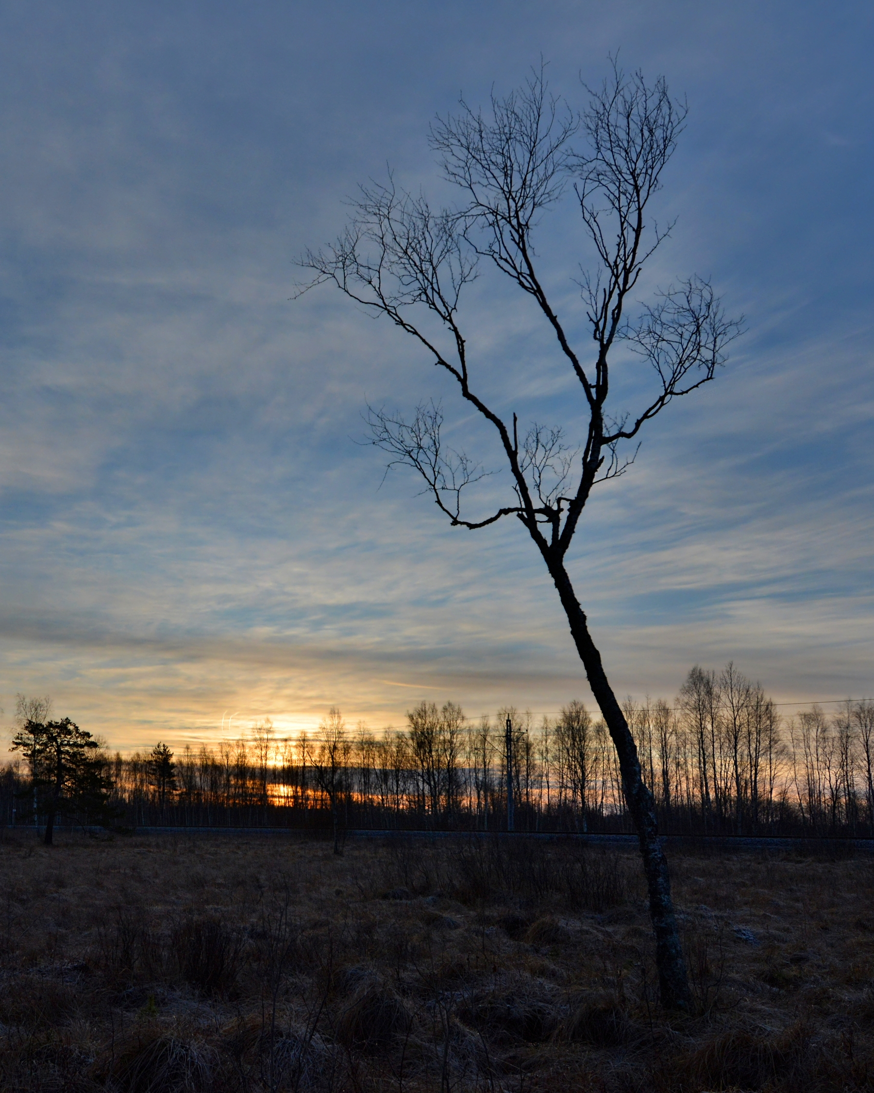 Moor birch (Betula pubescens) in Niitvälja bog, northwestern Estonia (in-camera HDR).